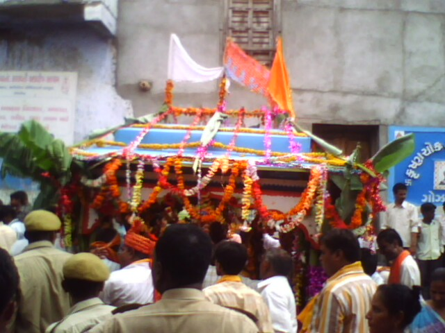 Rathyatra at Gozaria.